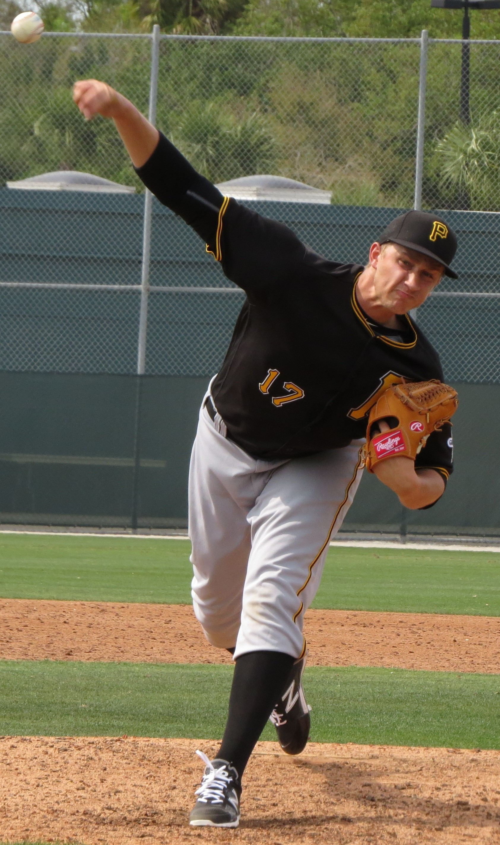 Dovydas Neverauskas pitching in 2016 Pittsburgh Pirates spring training